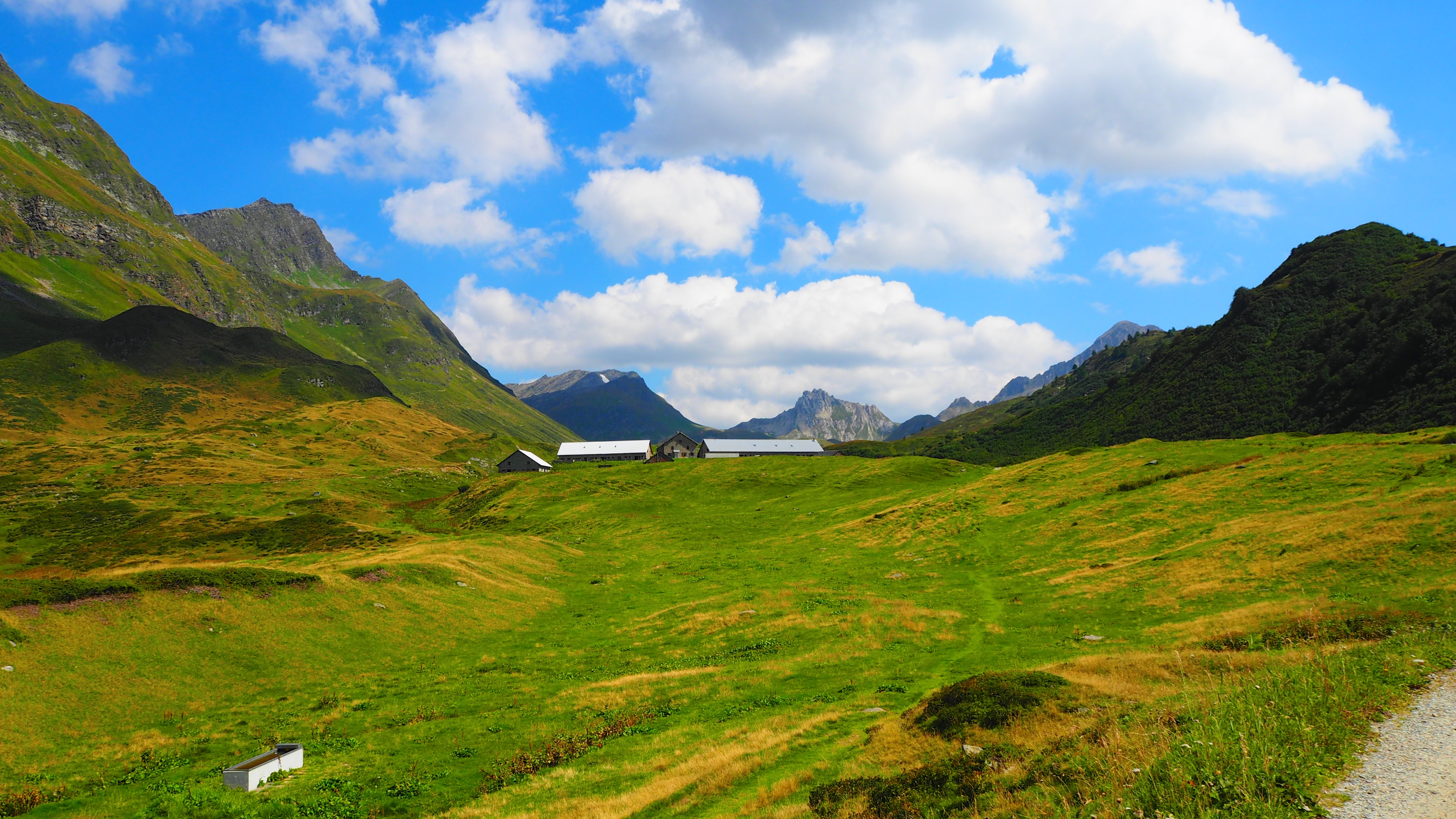 Alpe di Piora in Val Piora, Switzerland